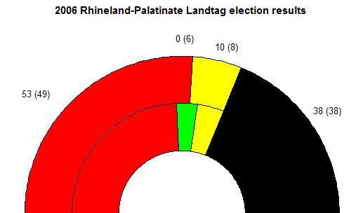 Results of the 2006 Landtag election in Rhineland SDP red, Greens green, FDP yellow, CDU in black, DPS in purple Created by Willhsmit